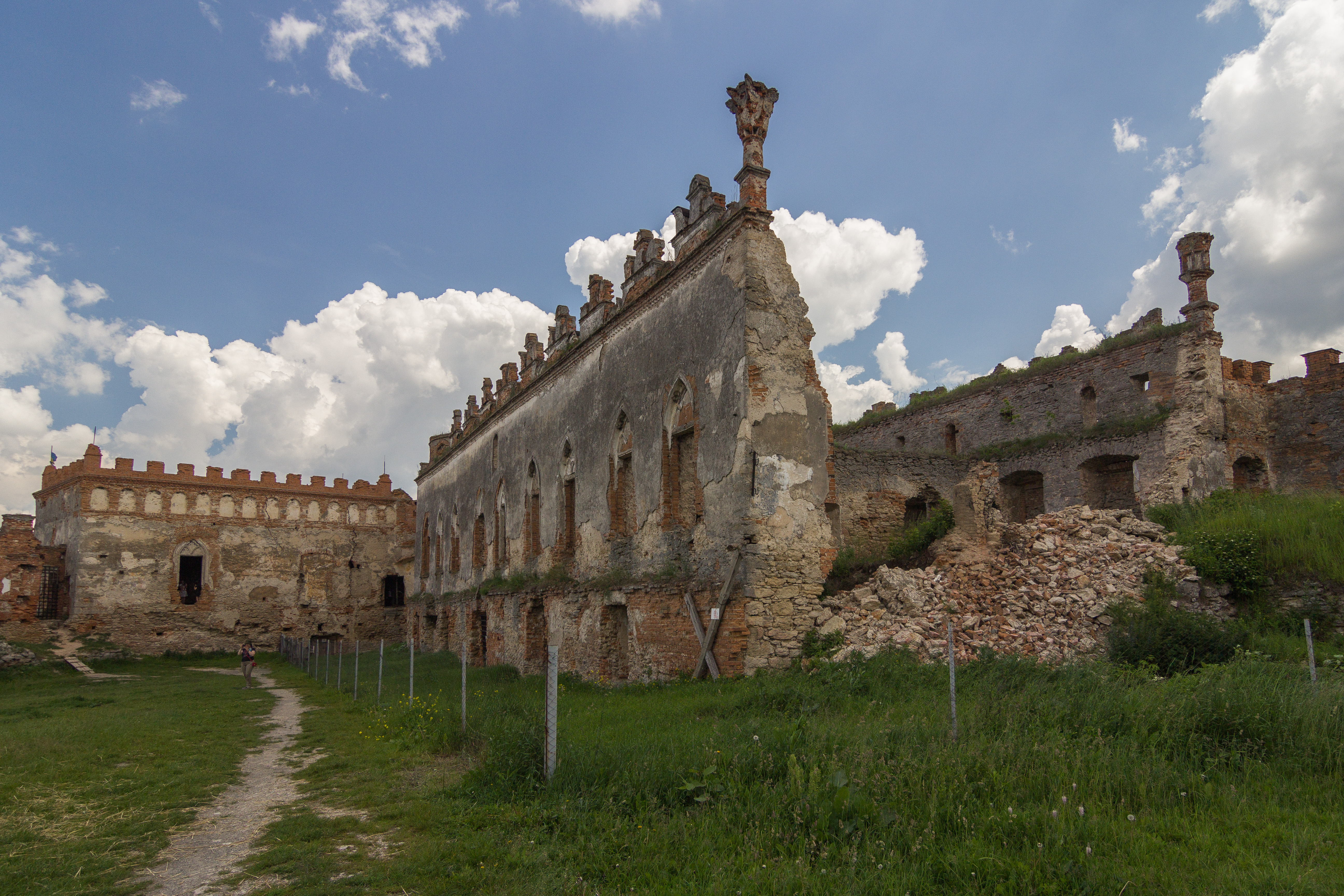 Medzhibizh fortress ruins 2016